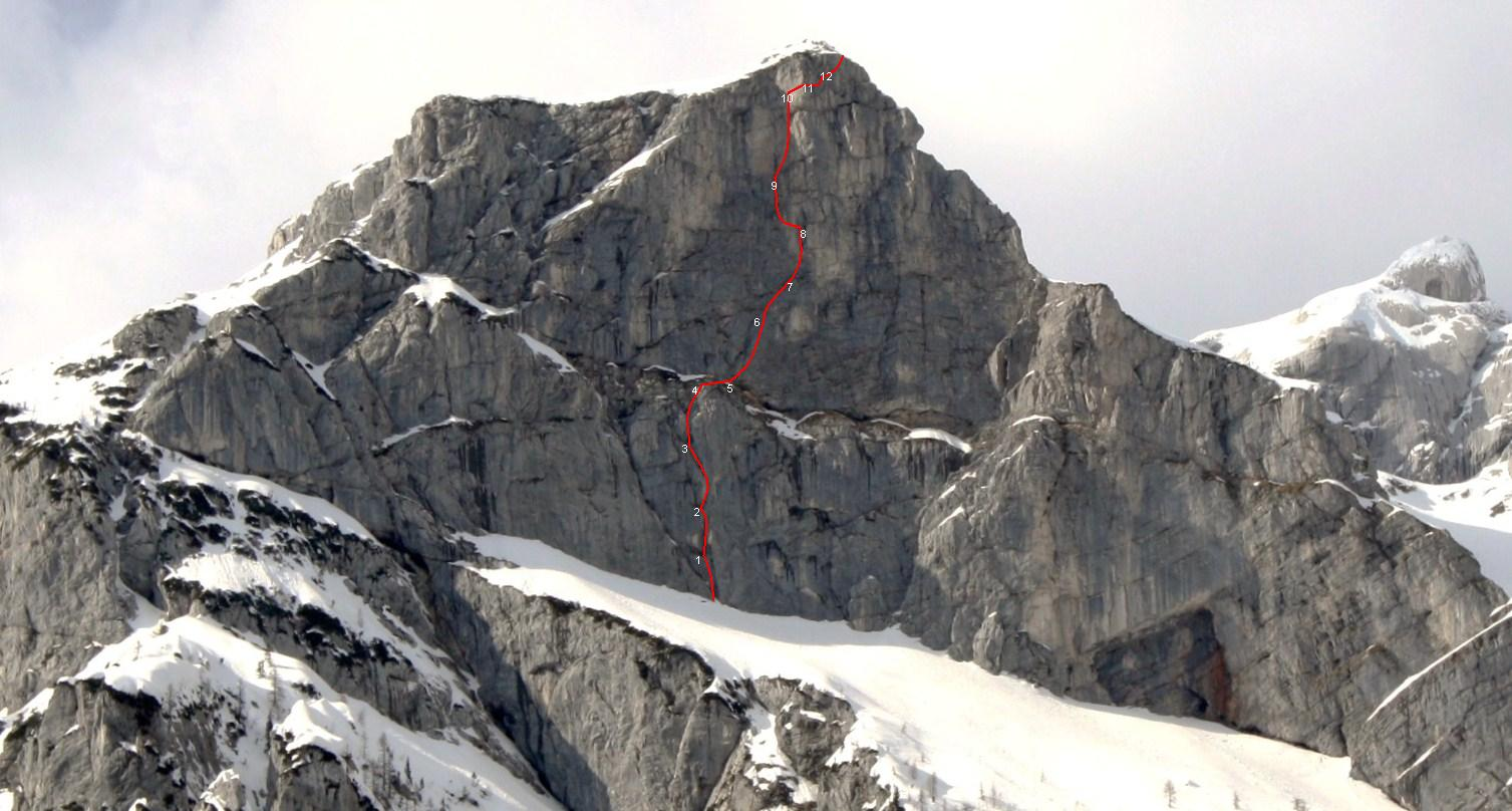 Kamniška route on the Kogel south face (approximate line) - Kamnik-Savinja Alps, Slovenia).